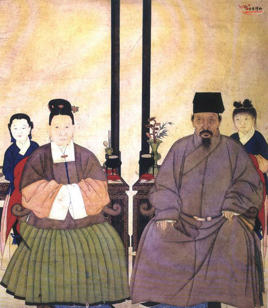 Portrait from China Ming Dynasty